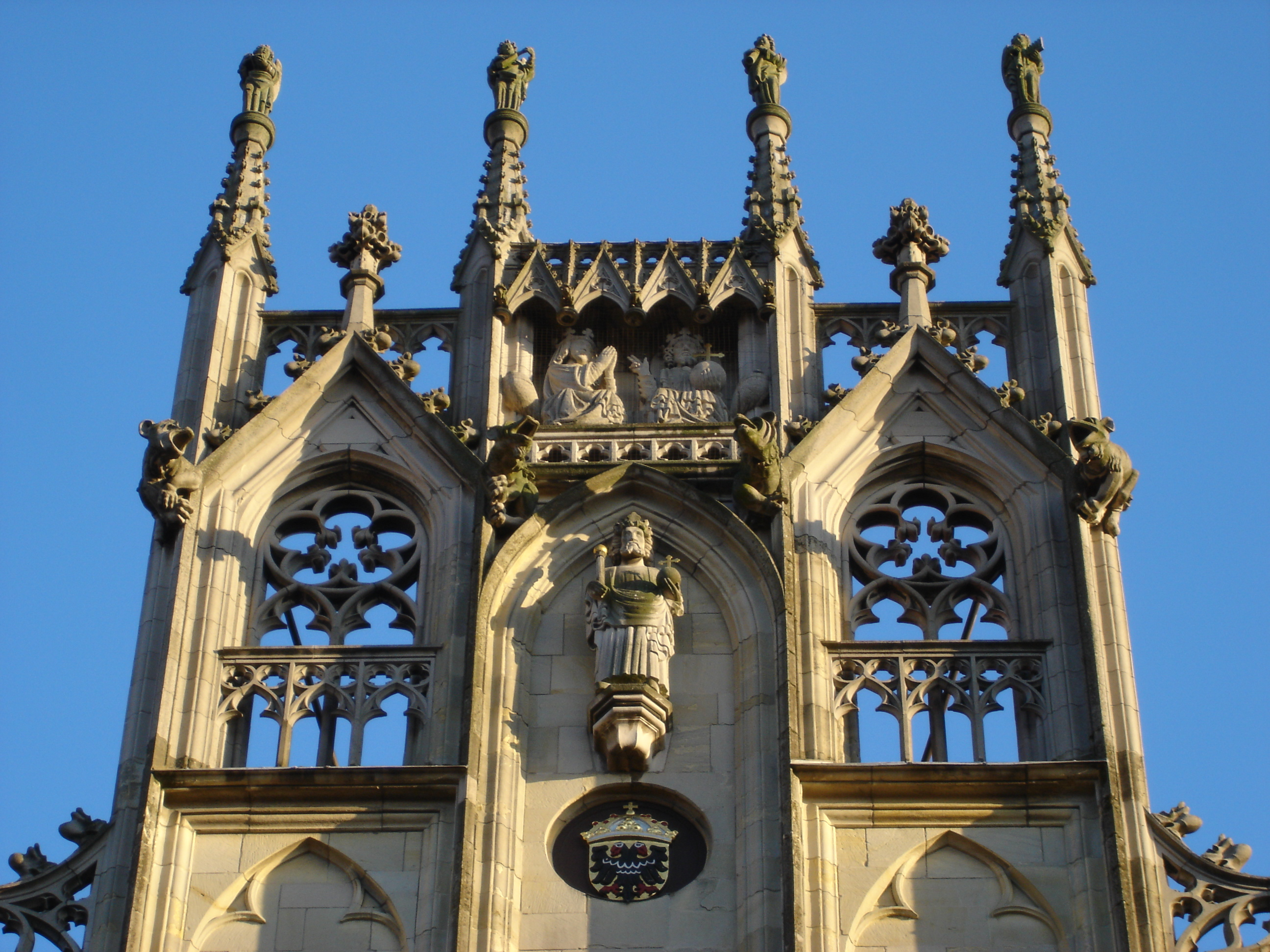 The gable of the historical city hall in Münster, Westphalia, Germany